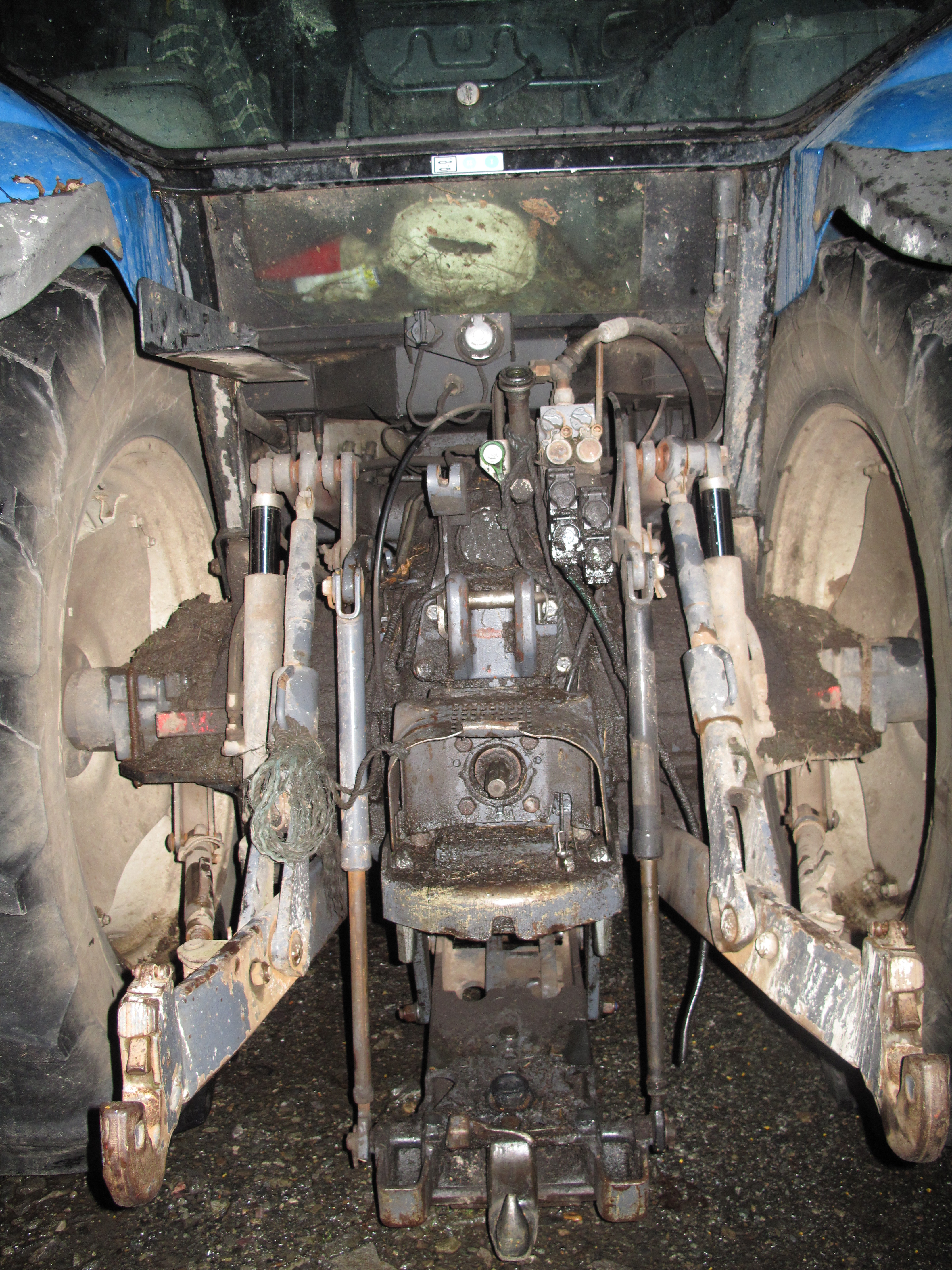 A tractor's behind, Bangor, Wales